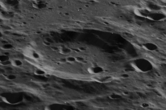 Oblique view of Grissom, on the moon.